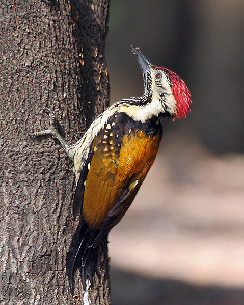 Black-rumped Flameback Dinopium benghalense in Kolkata, West Bengal, India.